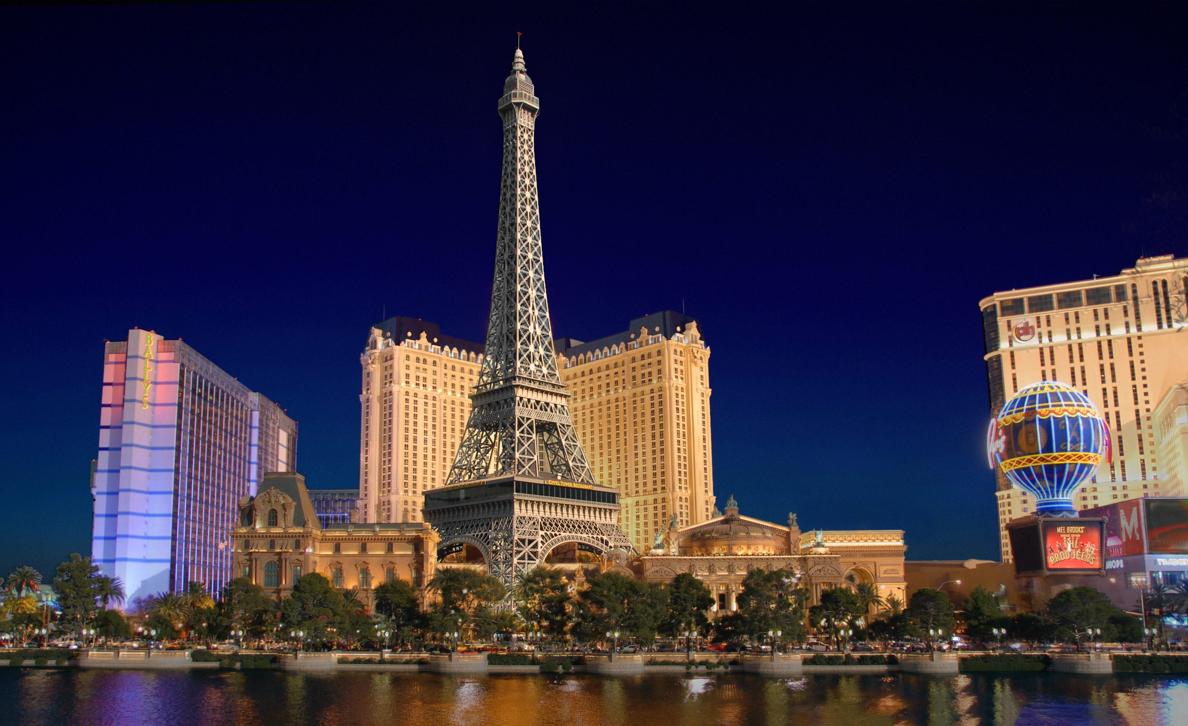 Las Vegas by night